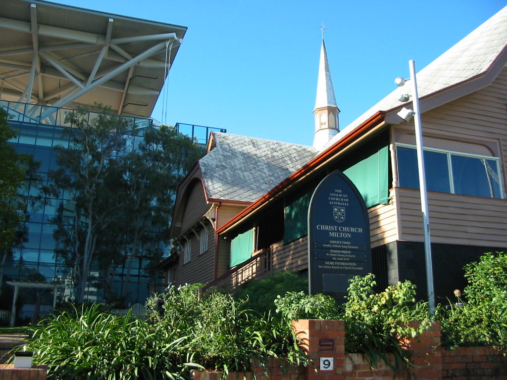 Christ Church, Milton, Brisbane, Queenslandm, Australia, with Suncorp Stadium in the background, 2005